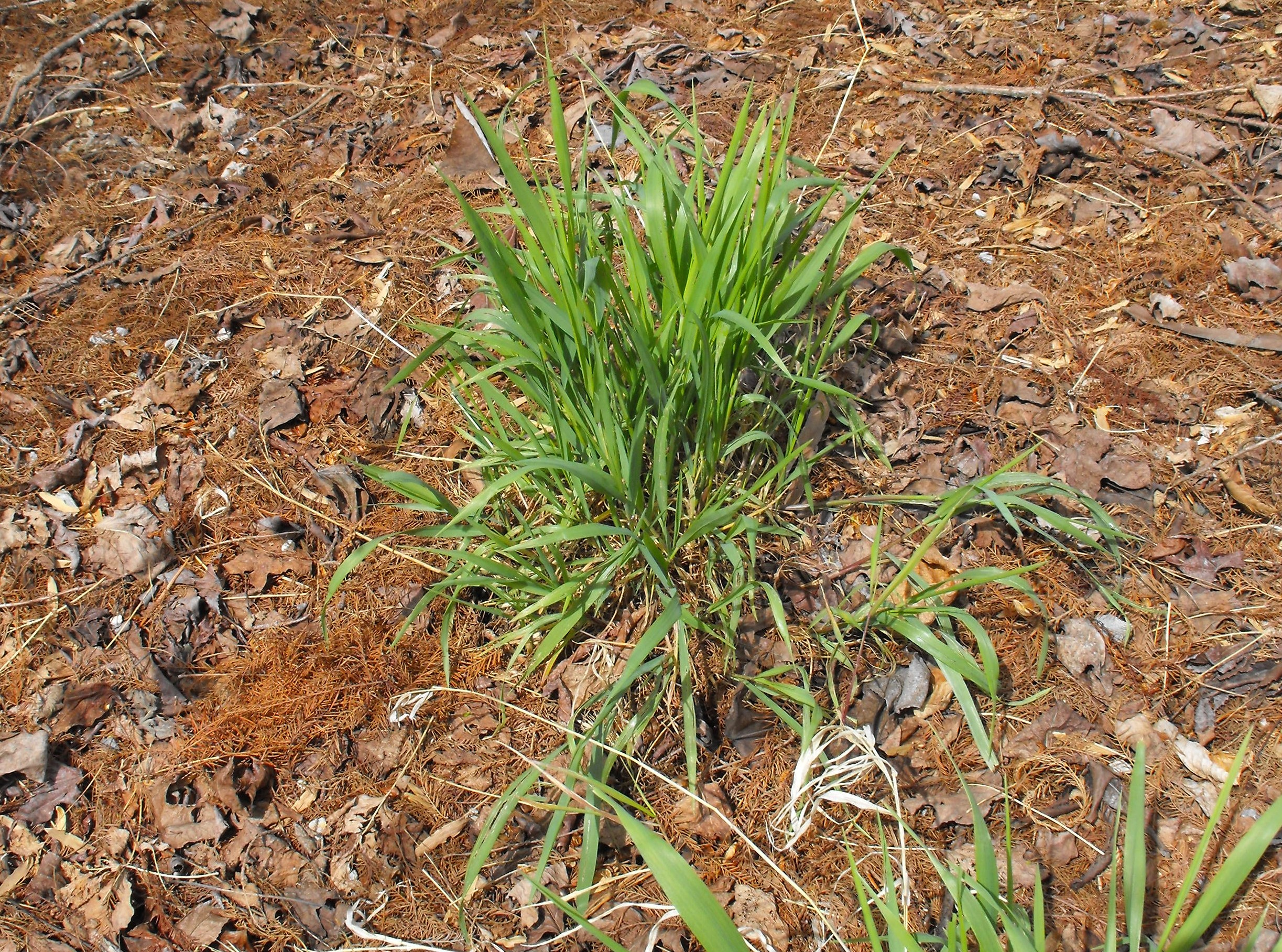 Elymus riparius at the UC Berkeley Botanical Garden, California, USA. Identified by sign.